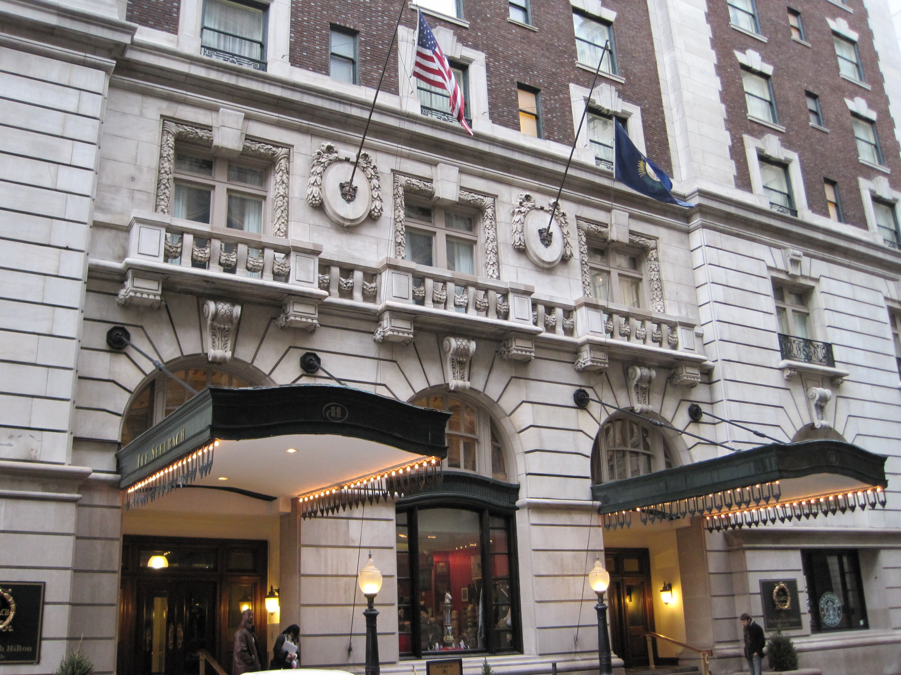 Photograph by Stephen Cox The Seelbach Hilton Hotel on 4th Str. and Muhammad Ali Blvd.